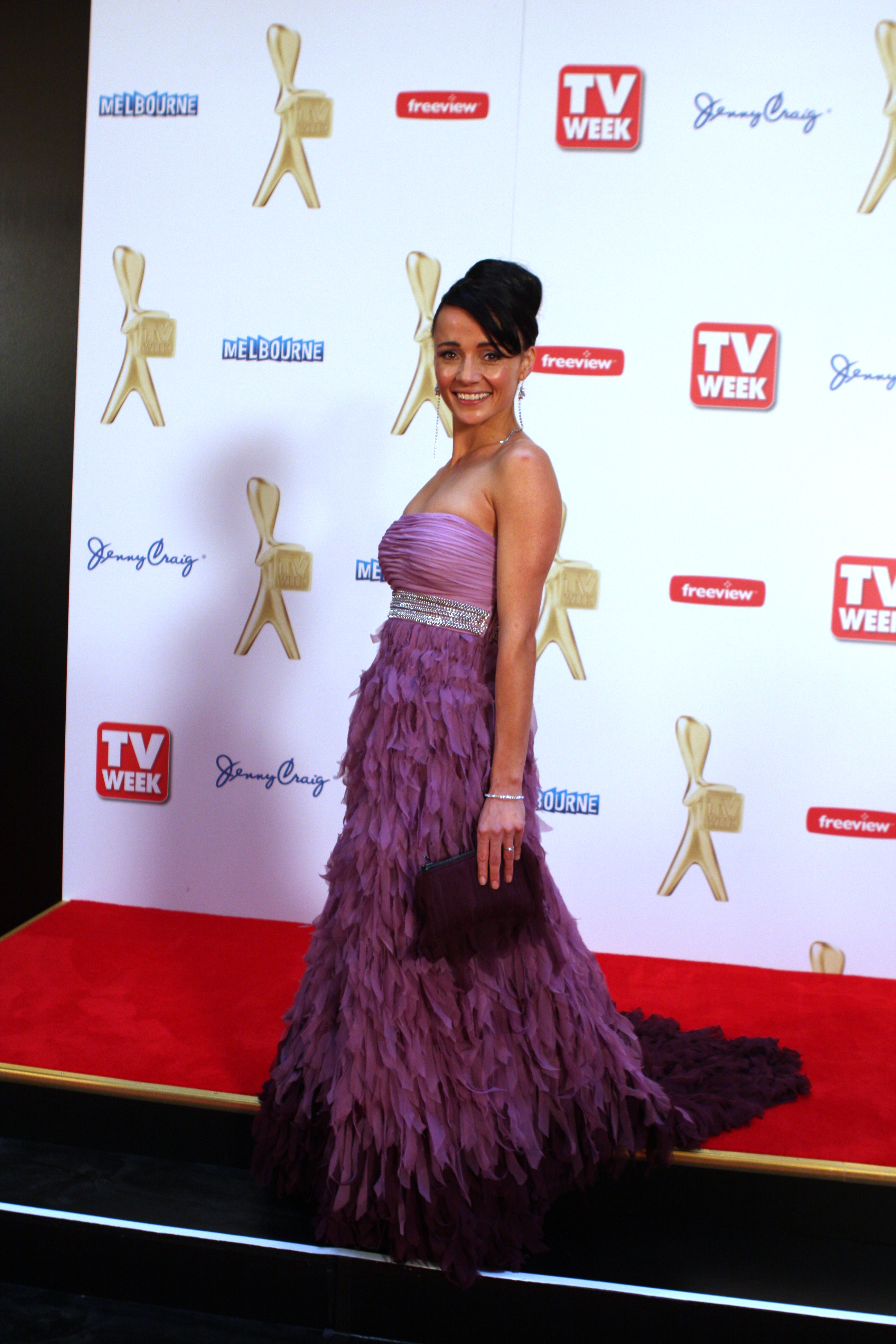 Freya Stafford at the 2011 Logie Awards.